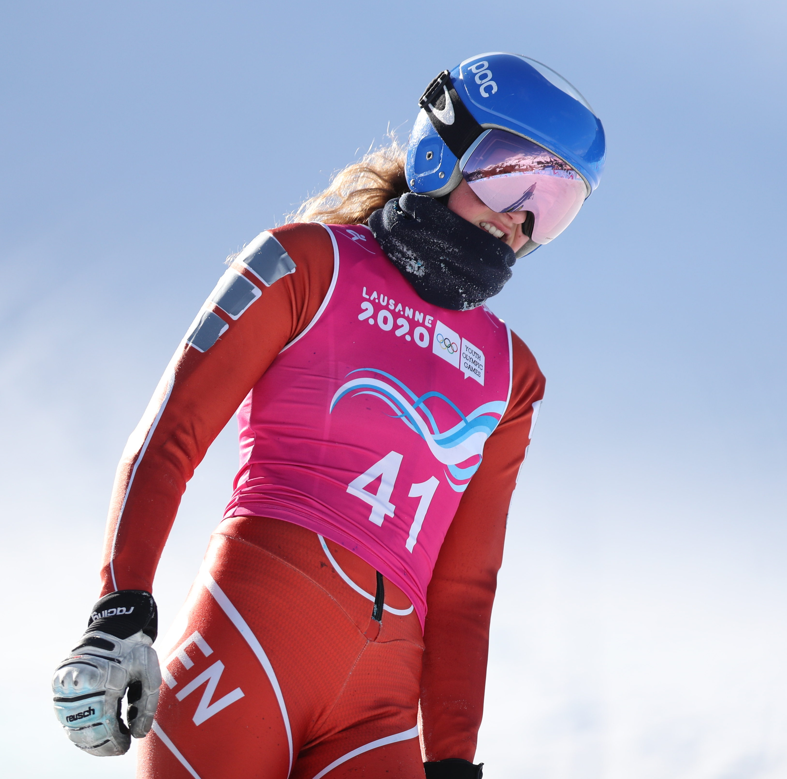 Women's Super G at the 2020 Winter Youth Olympics in Lausanne